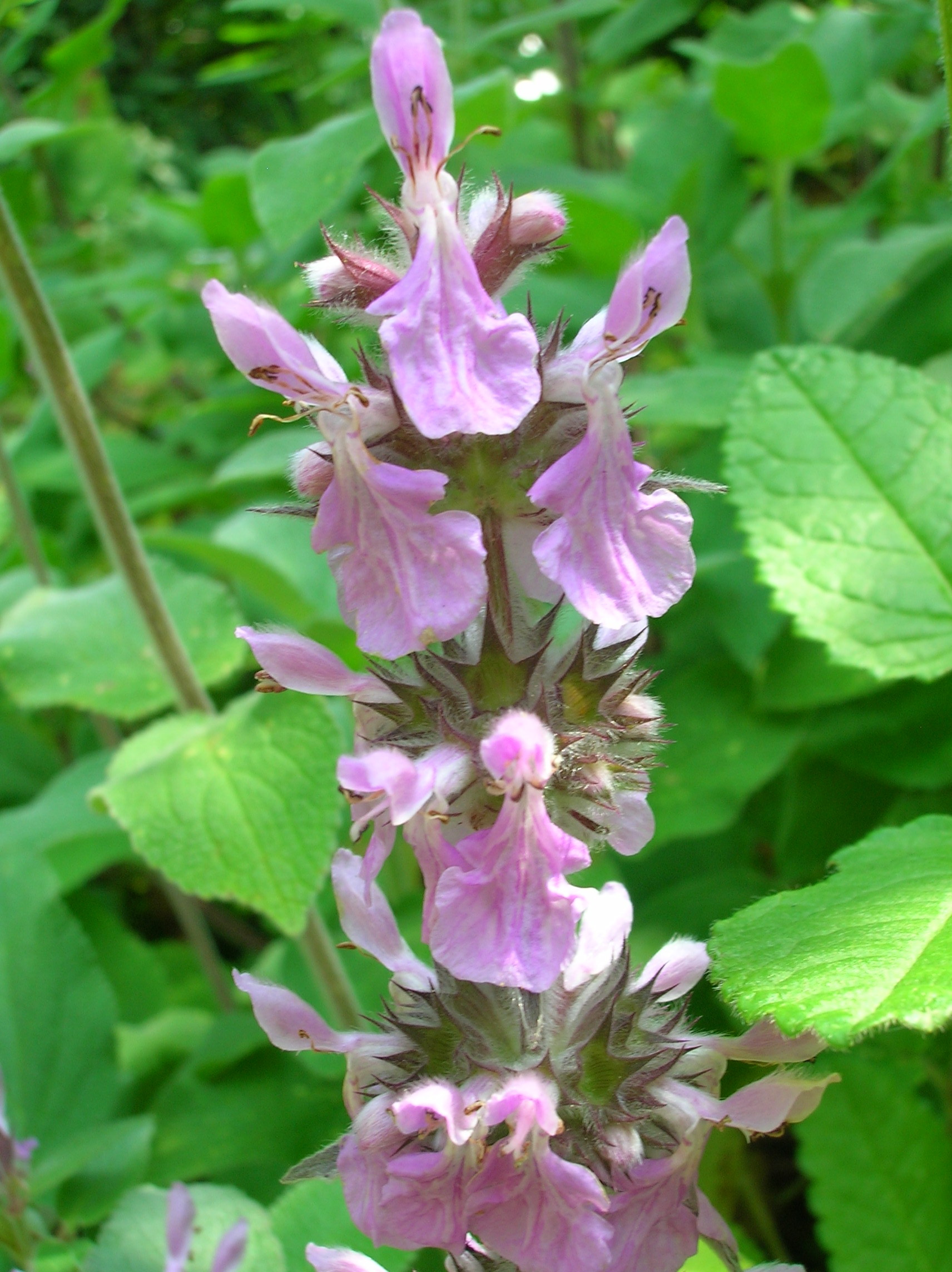 Stachys persica at the ÖBG Bayreuth